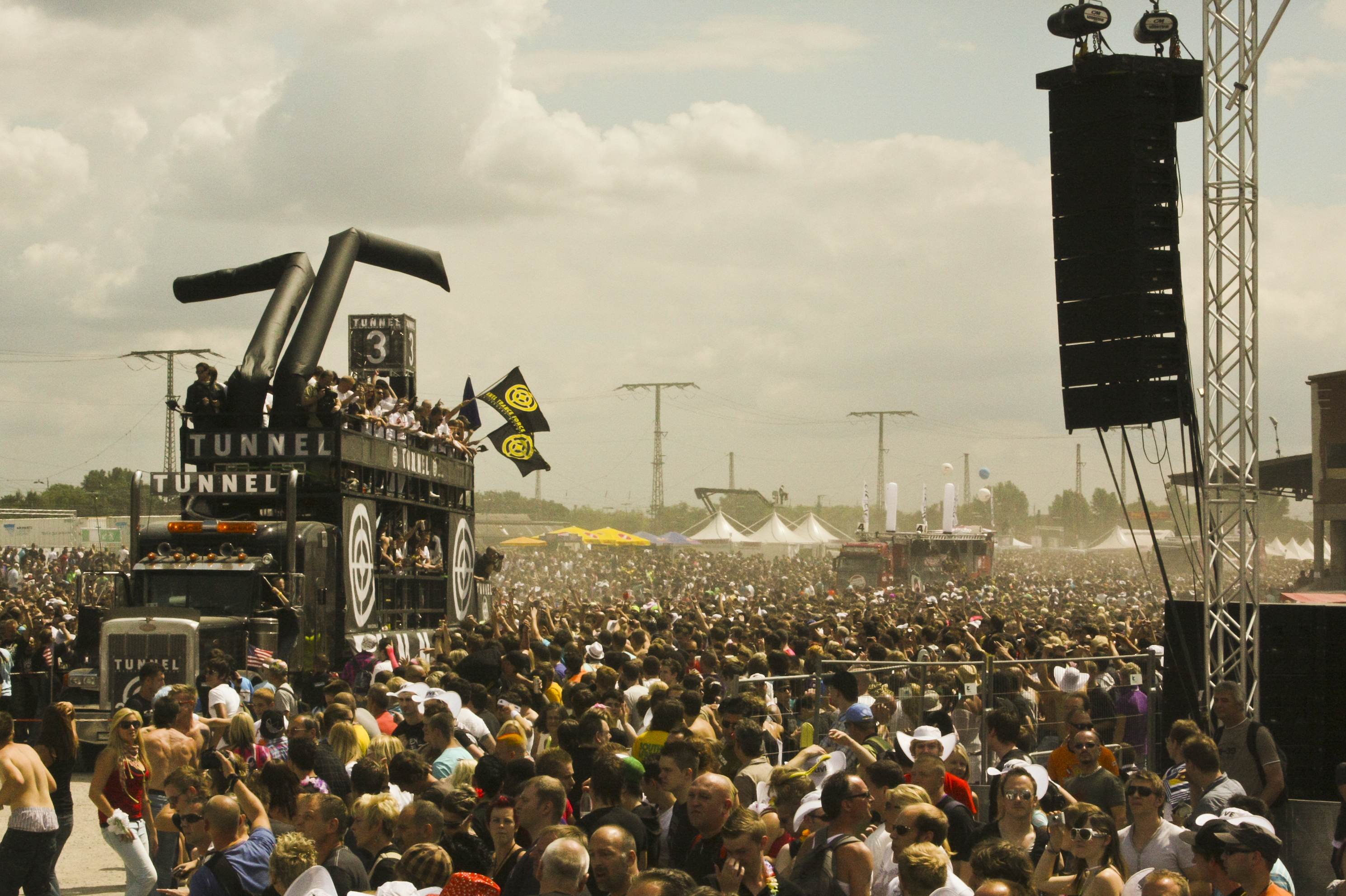 Loveparade 2010